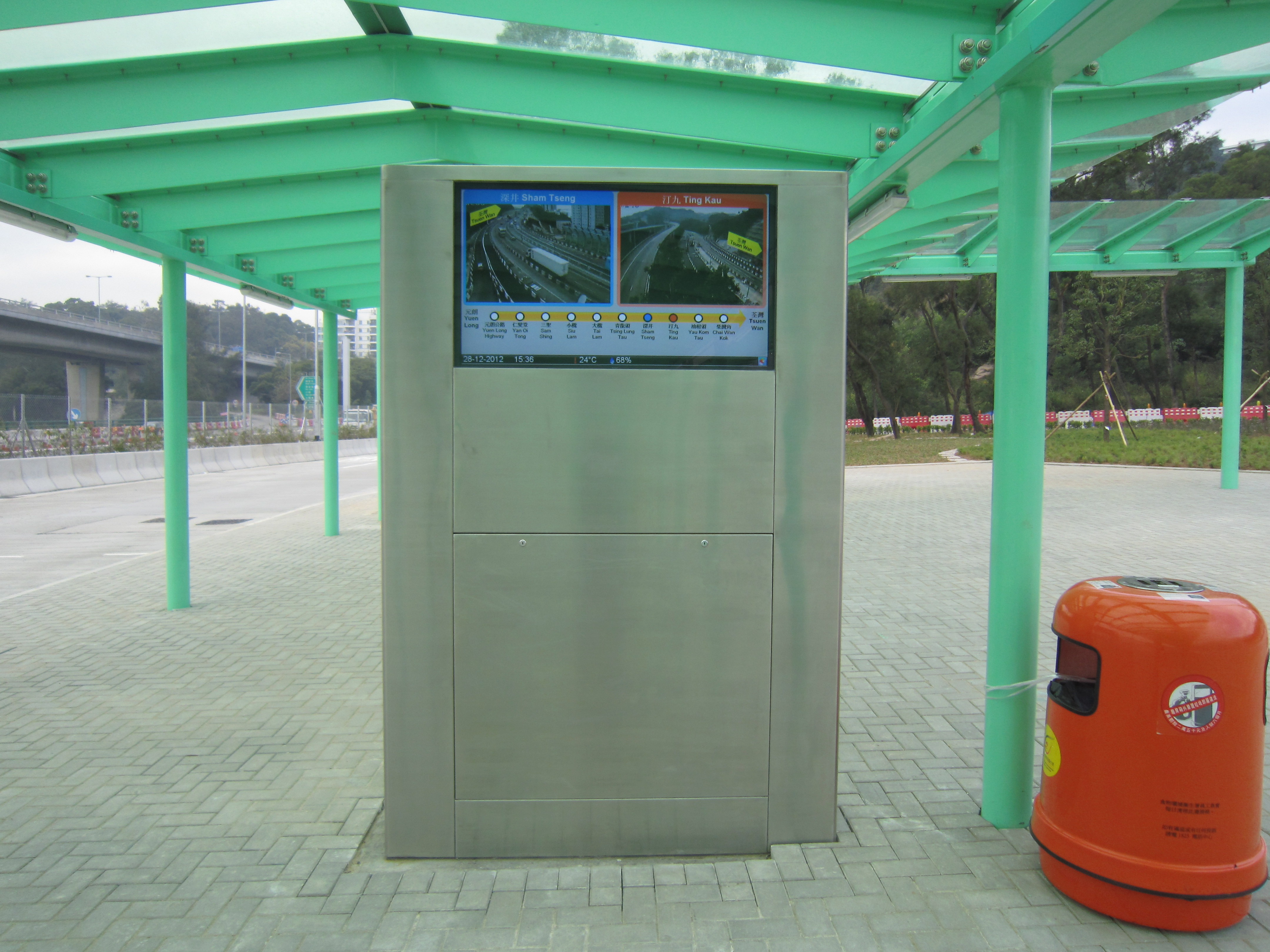 TMRBIS Road traffic display